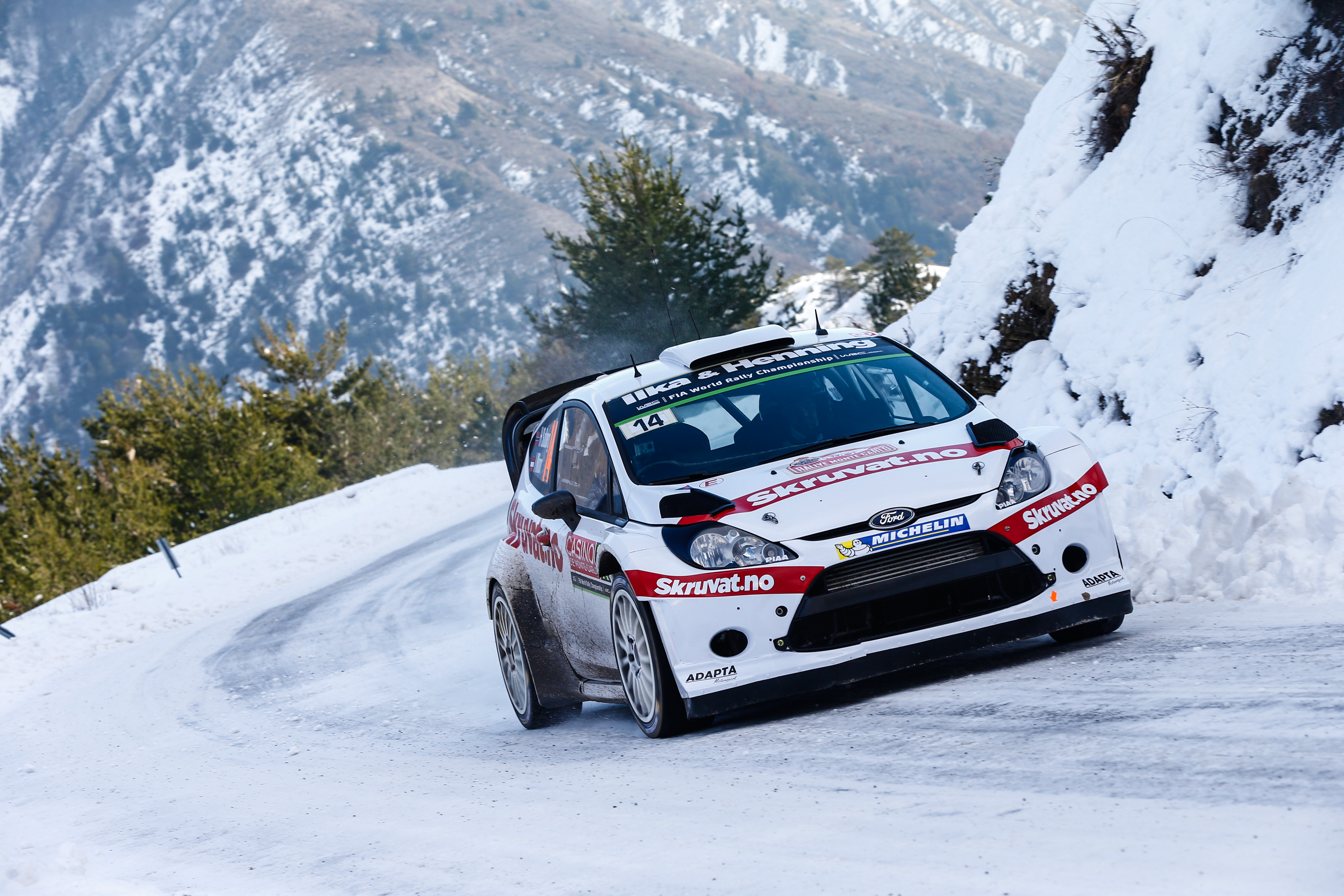 Henning Solberg and co-driver Ilka Minor in their Ford Fiesta RS WRC at the 2015 Rallye Automobile Monte Carlo.